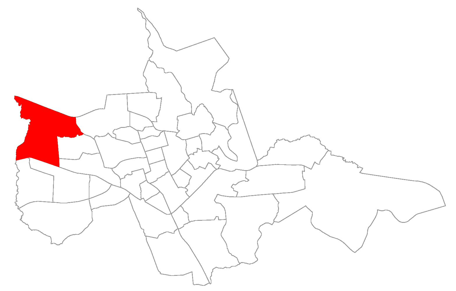 neighborhood/district of Santa Maria, Rio Grande do Sul